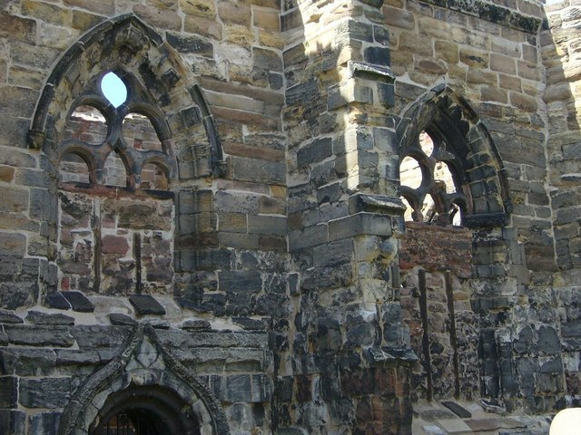 Dalkeith Parish Kirk